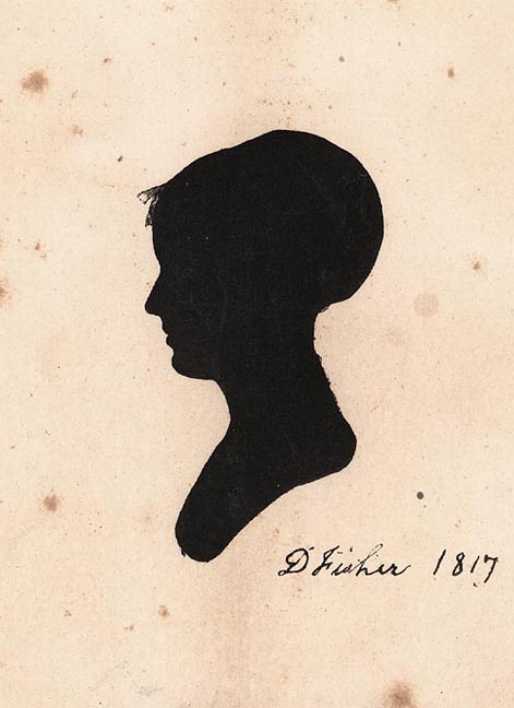 Silhouette of Deborah Fisher Wharton from a family archive.